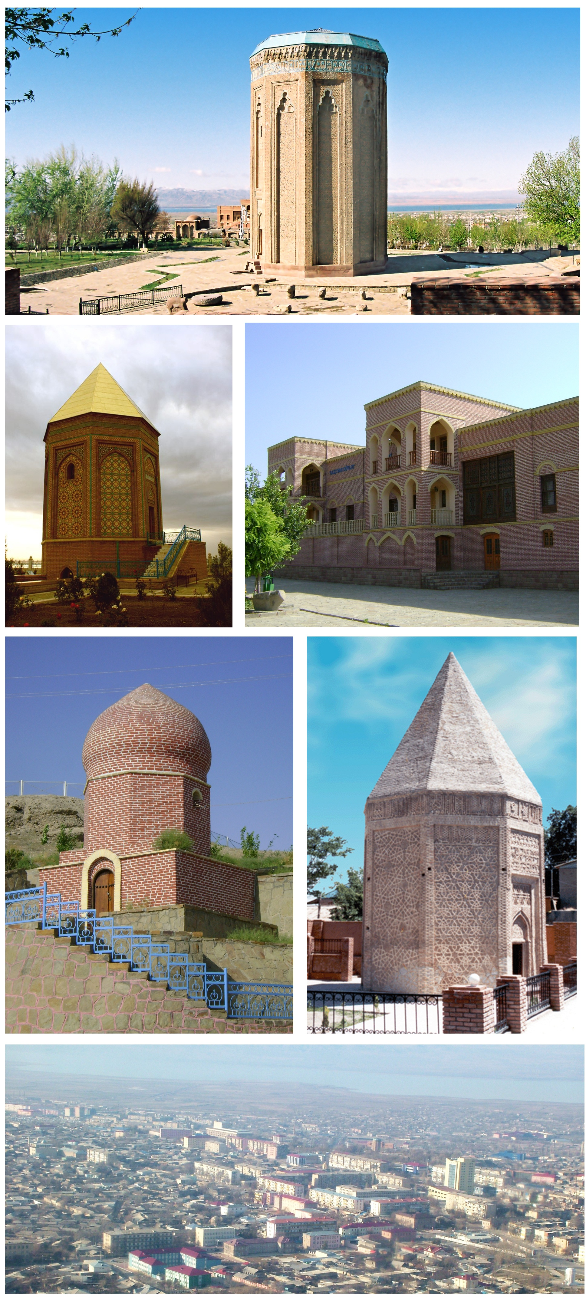 Montage of pictures of Nakhchivan used for the specific article. Composition of the pictures: File:City of naxcivan view from plane.jpg File:Noah tomb.jpg File:Nakhichevan Mausoleum.jpg File:Haji Rufai Bey mosque - 18th century-2.JPG File:Nakhchivan khan palace7.JPG File:Momine Hatoon Mausoleum.jpg